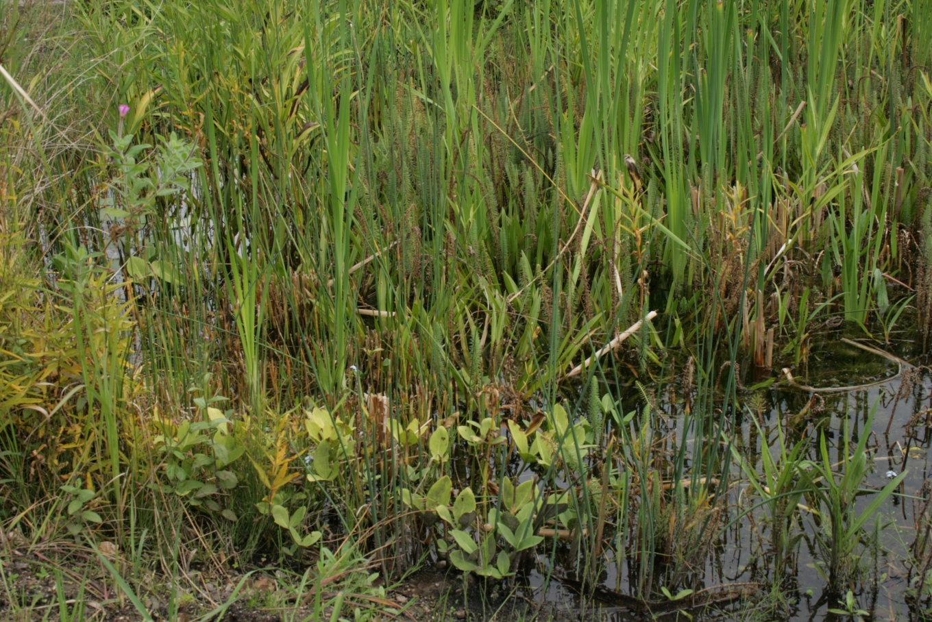 Transitional rich fen (Photo from the Botanical Garden of Aarhus, Denmark)